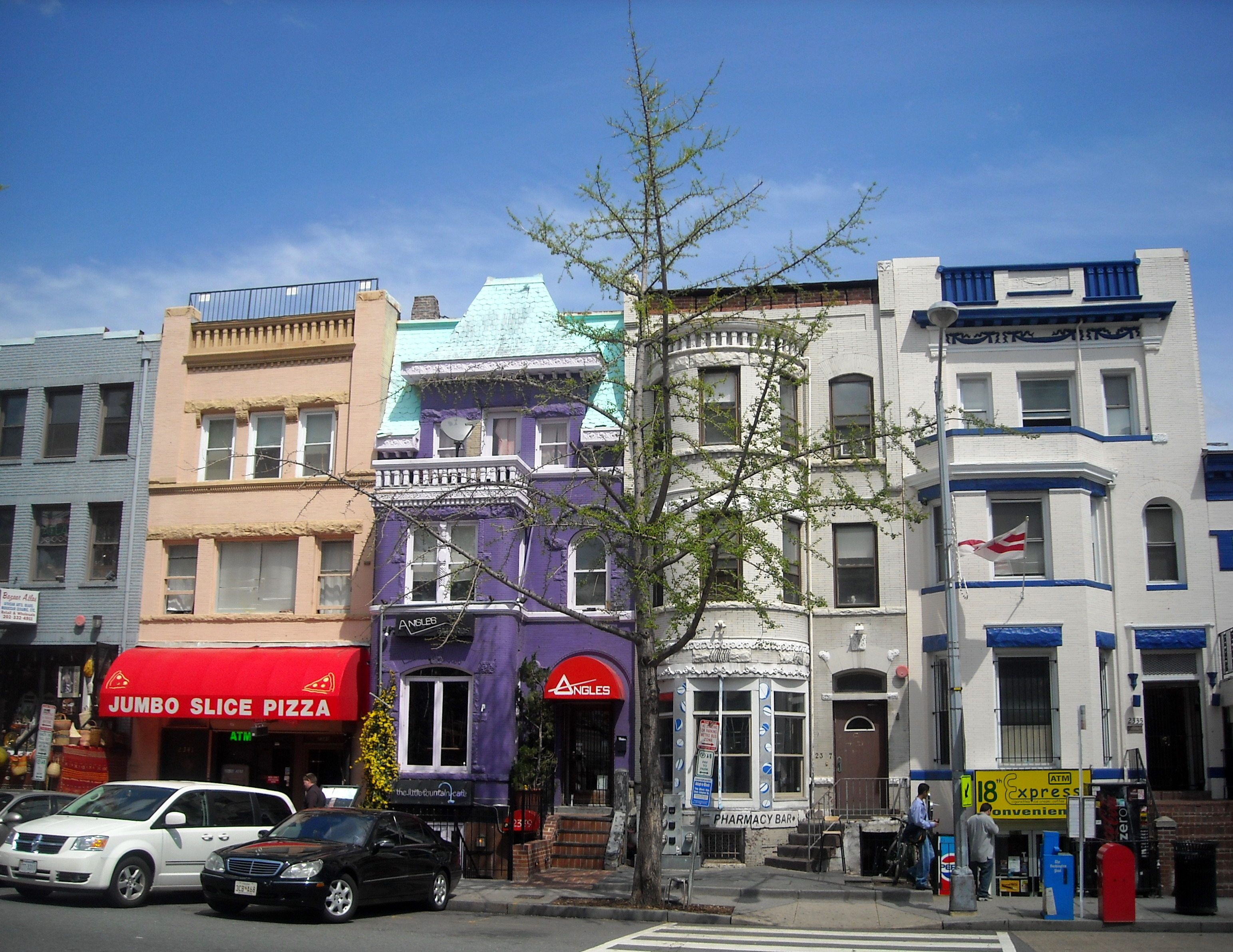 Early 20th-century commercial buildings located at 2335–2339 18th Street, N.W., in the Adams Morgan neighborhood of Washington, D.C. The buildings are designated as contributing properties to the Washington Heights Historic District, listed on the National Register of Historic Places in 2006. From 1980 to 1987, the Whitman-Walker Clinic was located at 2335 18th Street, N.W., visible on the far right-hand side.